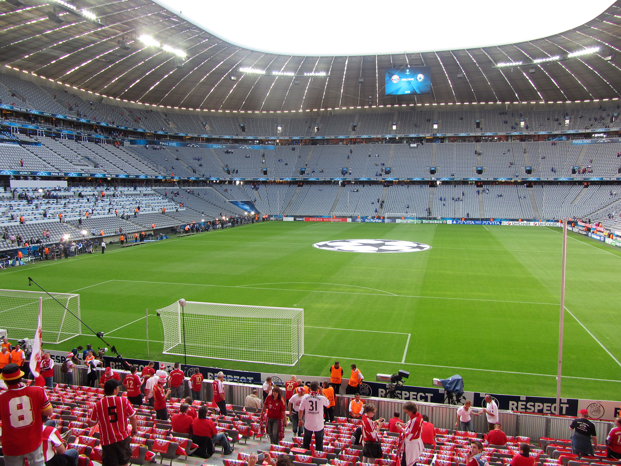 Bayern München - Chelsea FC 19.05.2012 Champions League Finale 2012 / "Finale Dahoam" In der Arena, 3 Stunden vor dem Anpfiff Champions League Final 2012 Inside the arena, with 3 hours before the kick off